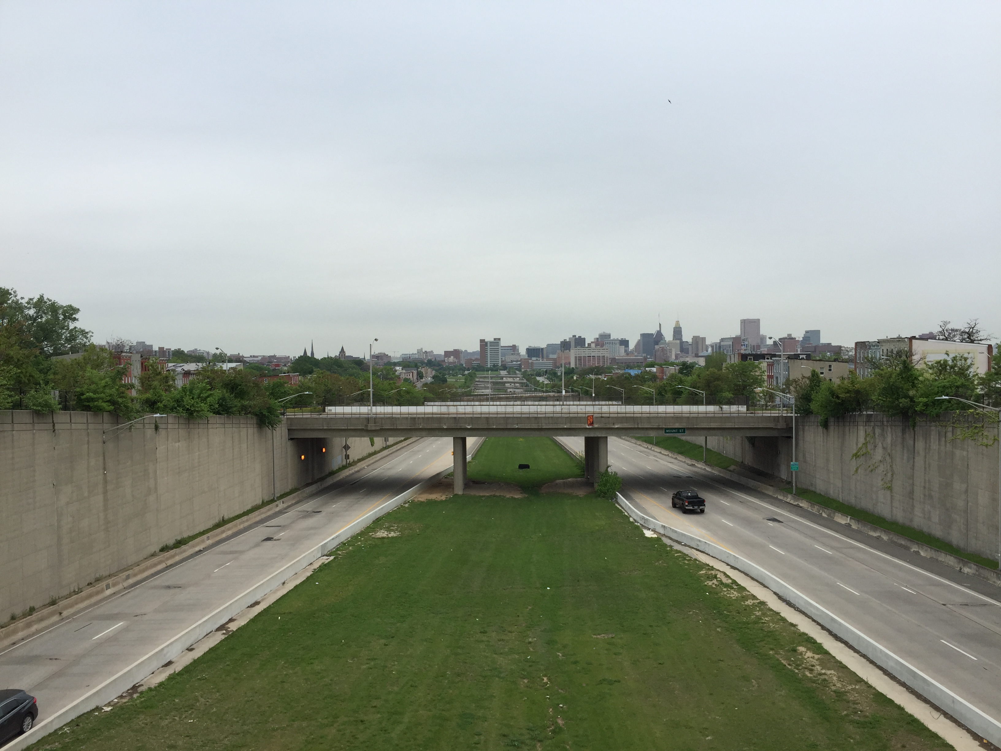 View east along U.S. Route 40 (former Interstate 170) from the overpass for U.S. Route 1 northbound (North Fulton Avenue) in Baltimore City, Maryland